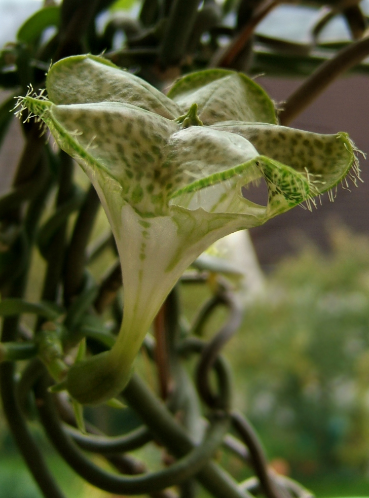 Fountain flower, Parachute plant